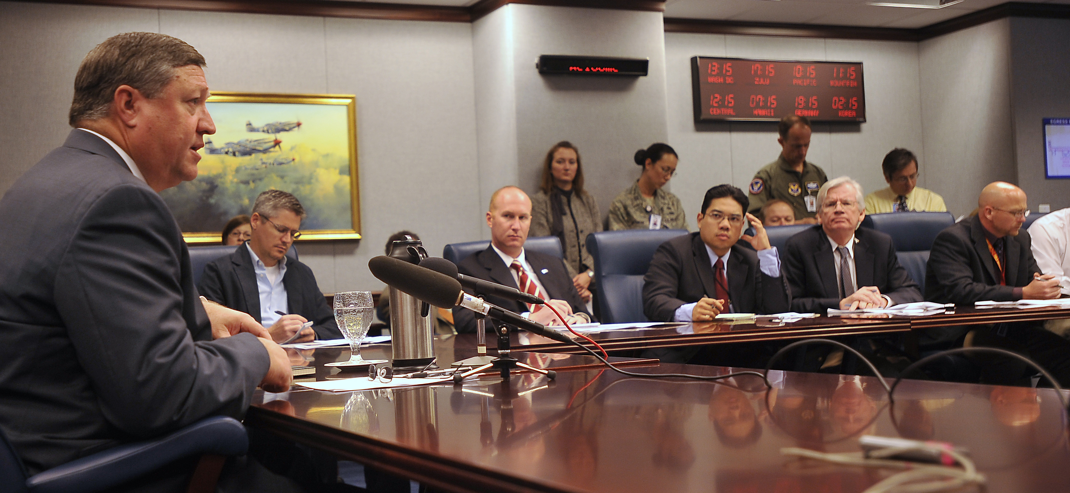 United States Secretary of the Air Force Michael B. Donley answers questions from the press during a media roundtable hosted in the Pentagon on October 24, 2008 in which Donley announced the creation of the Air Force Global Strike Command. The new command will control all Air Force nuclear bombers, missiles, and personnel.